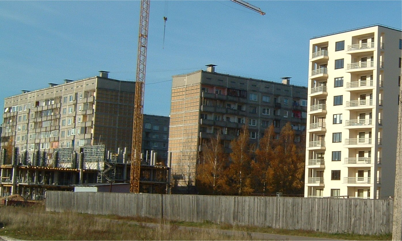 Image created by C.B.Doak.